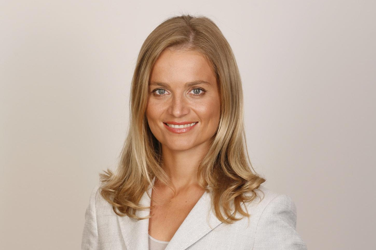 Katarina Kresal, president of the Slovenian party LDS and Minister of the Interior of the Republic of Slovenia. The photograph has been provided by Alja Gabrijel, the person in charge of PR of the LDS, under the GDFL licence, see Pogovor:Katarina Kresal.